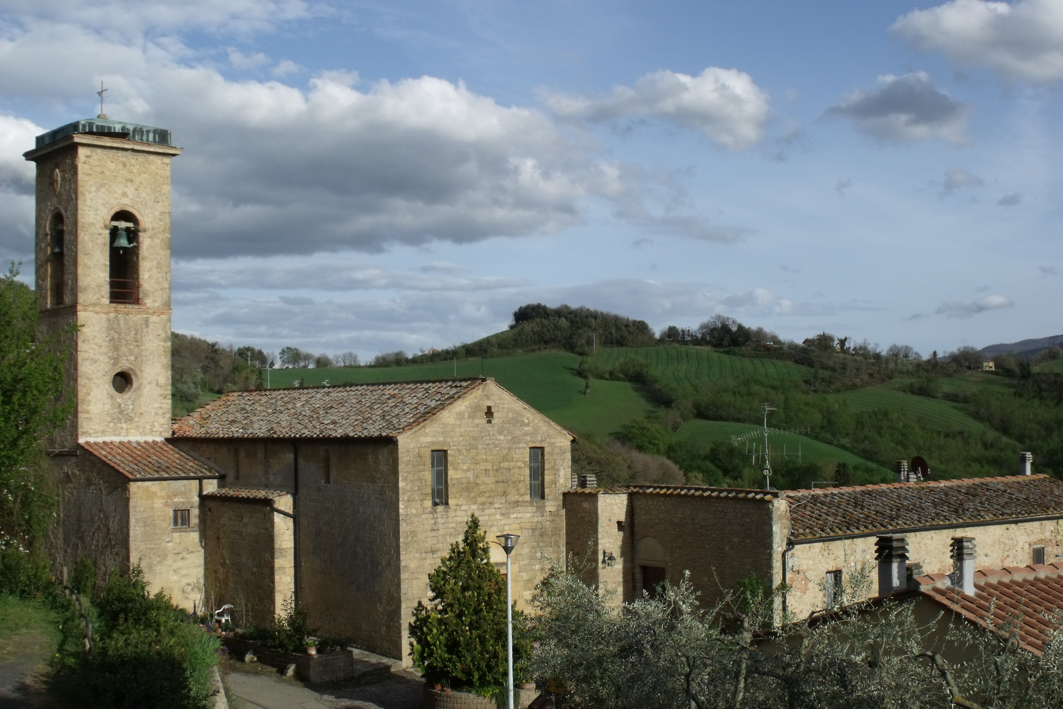 Pieve/Church of San Dalmanzio, hamlet of Pomarance, Province of Pisa, Tuscany, Italy